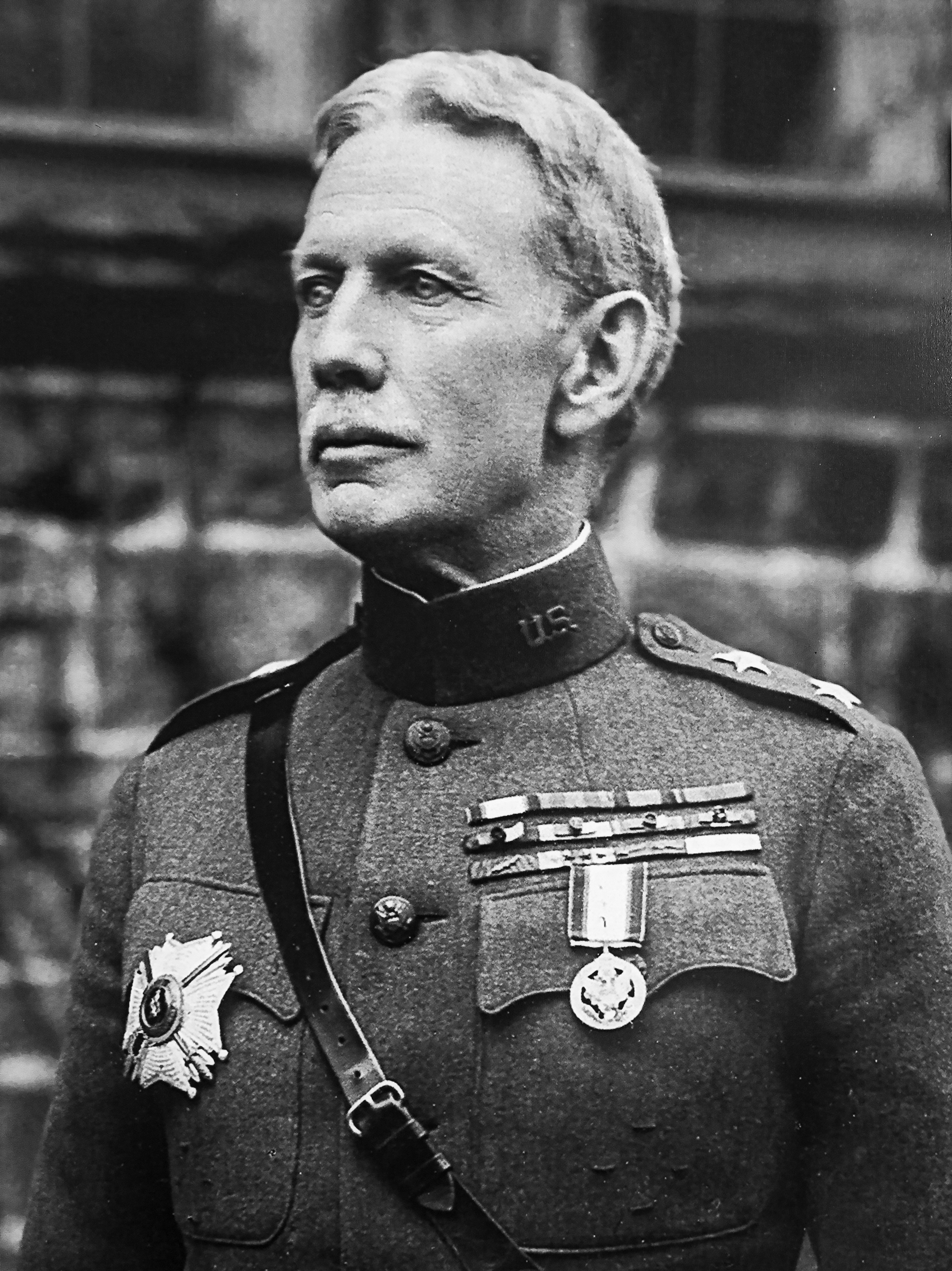 Henry T. Allen, commander-in-chief of the American occupation army in the Rhineland after the 1. World War. He was stationed in Coblenz from 1919-1923.